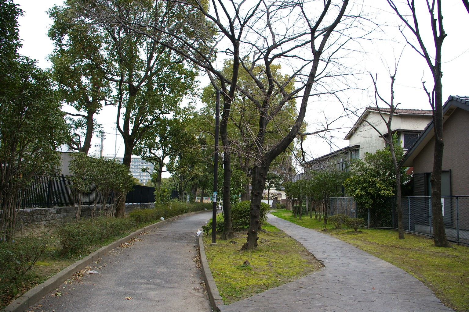 Higashi ward